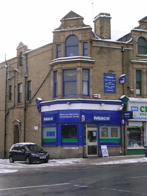 Mace Convenience Store - Oak Lane